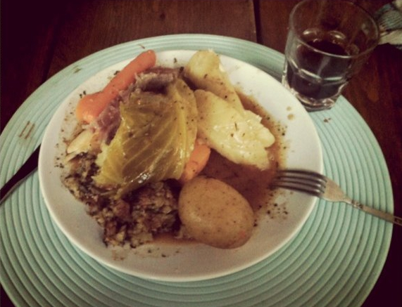 Beaver the chef: traditional Jiggs dinner Sunday New Foundland